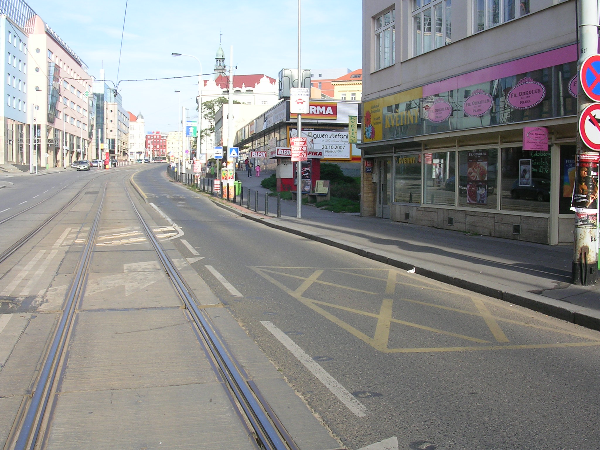 Tram stop Nádraží Vysočany, Prague-Vysočany, Czech Republic.